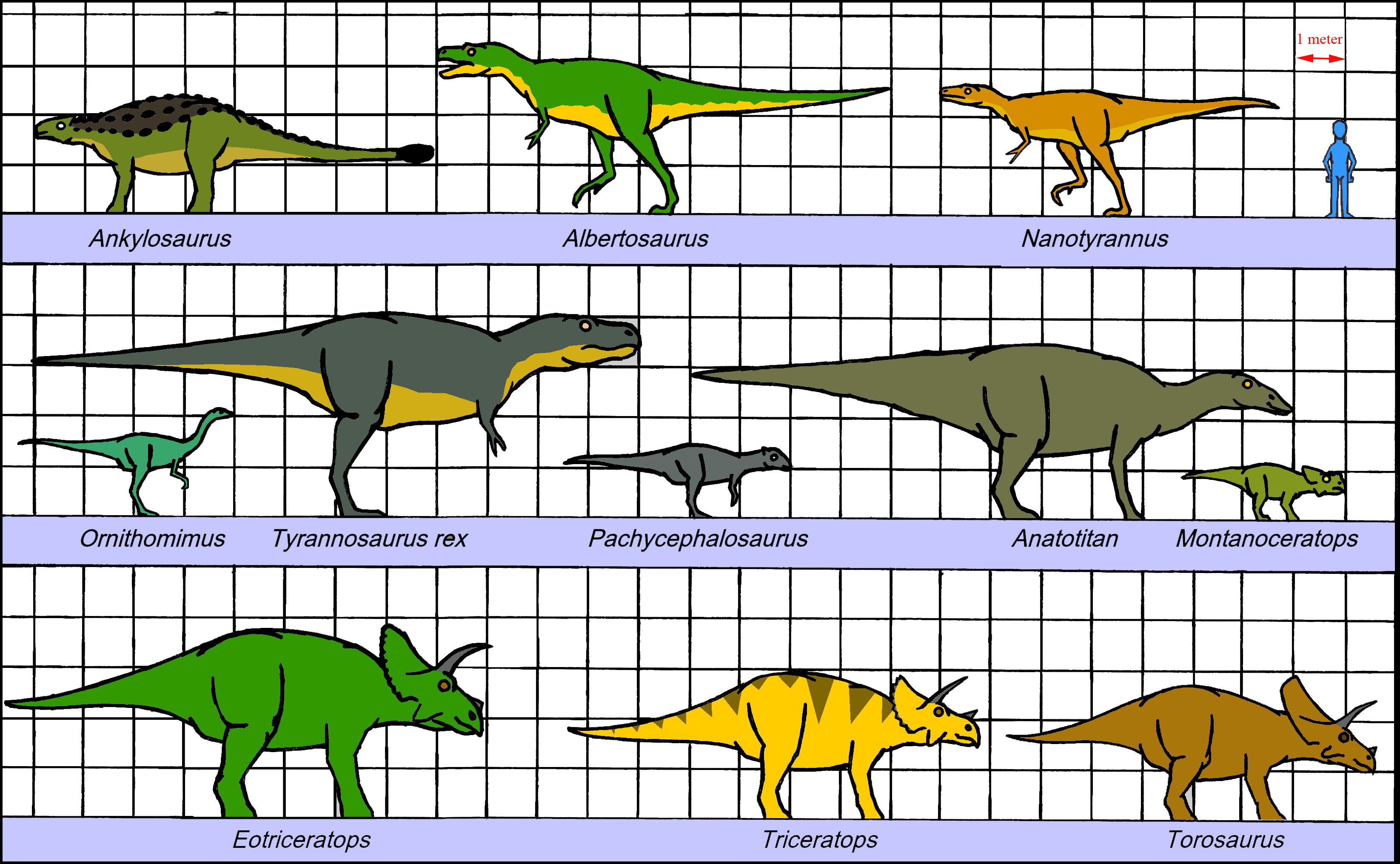 Size comparison between the dinosaurs which lived in North America, according to scientists in the late cretaceous period during the Maastrichtian stage, about 70 - 65 MYA. Size of dinosaurs compared to a human, up to the right. Scale in meters.